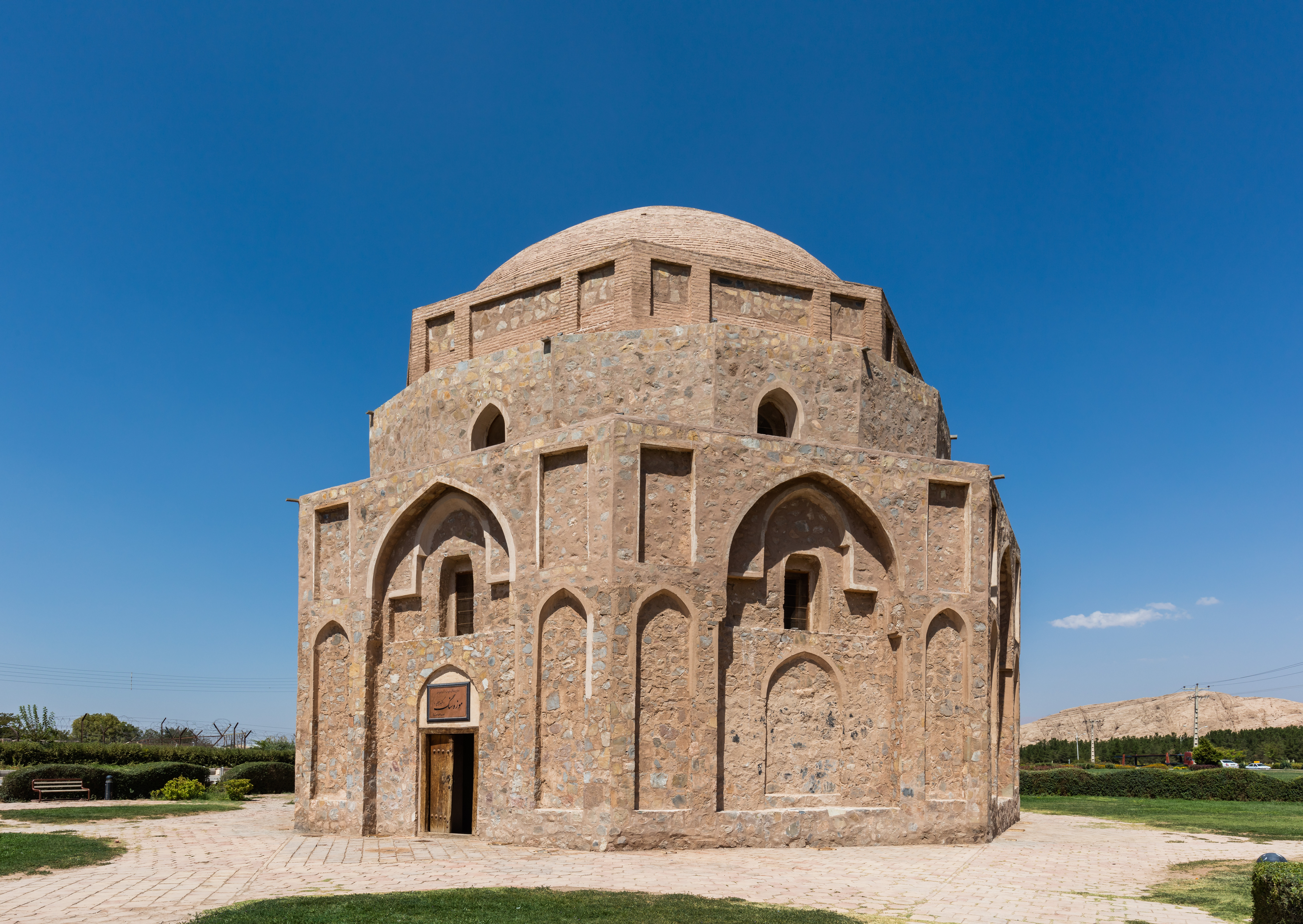 Jabalieh, Kerman, Iran